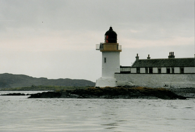 Fladda lighthouse, Argyll, Scotland